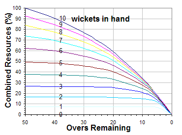 Graph demonstrating cricket's Duckworth-Lewis method. Made by Jono4174h on the English Wikipedia, "using excel and commonly available data".